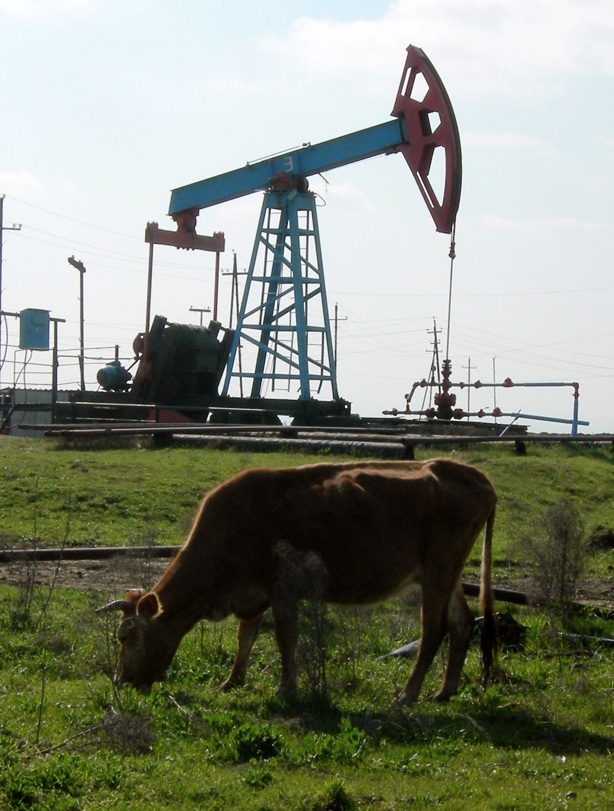 Oil well in Hacıqabul rayon, Azerbaijan